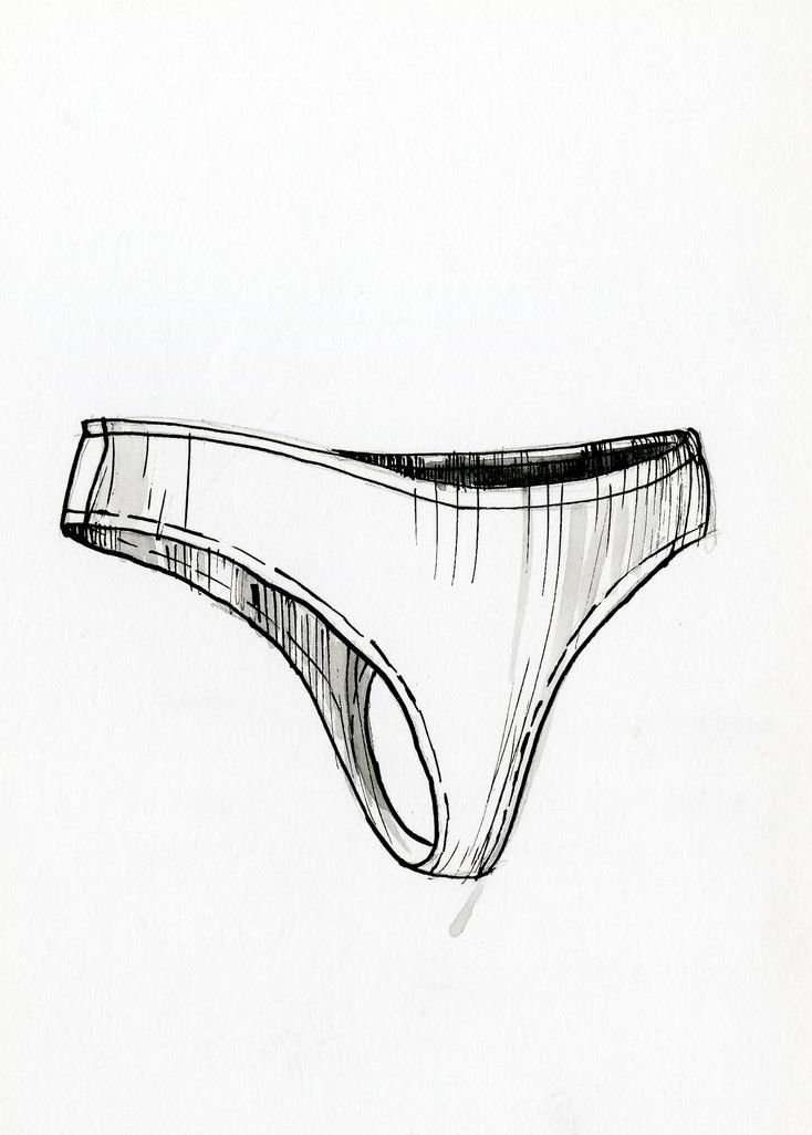 Drawing of the Thesaurus concept : 'tanga'.